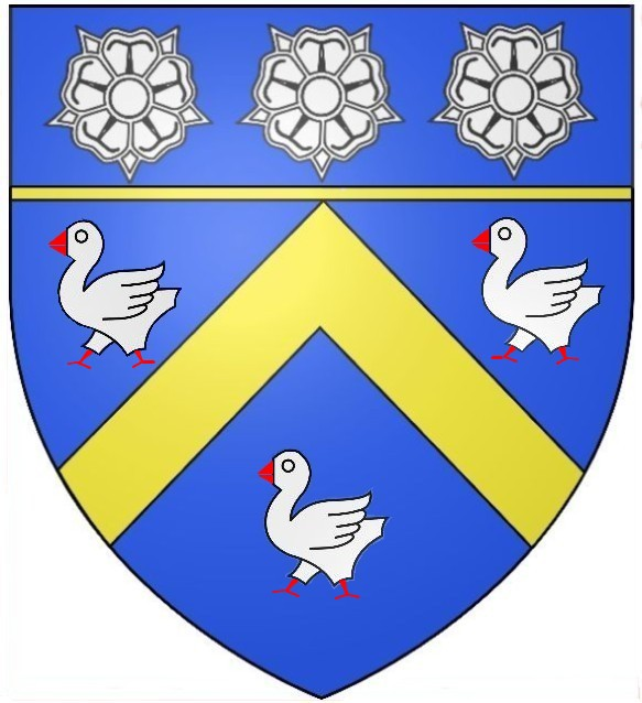 Blason Jacques et Nicolas DUNOT de St-Pierre-sur-Dives (14) annoblis en mai 1622, AD 76 3B 23,f°95v°. D'azur au chevron d'or avec trois bourettes (merlettes) d'argent becquées et membrées de gueules, au chef d'azur chargé de trois roses d'argent, timbre et lambrequins